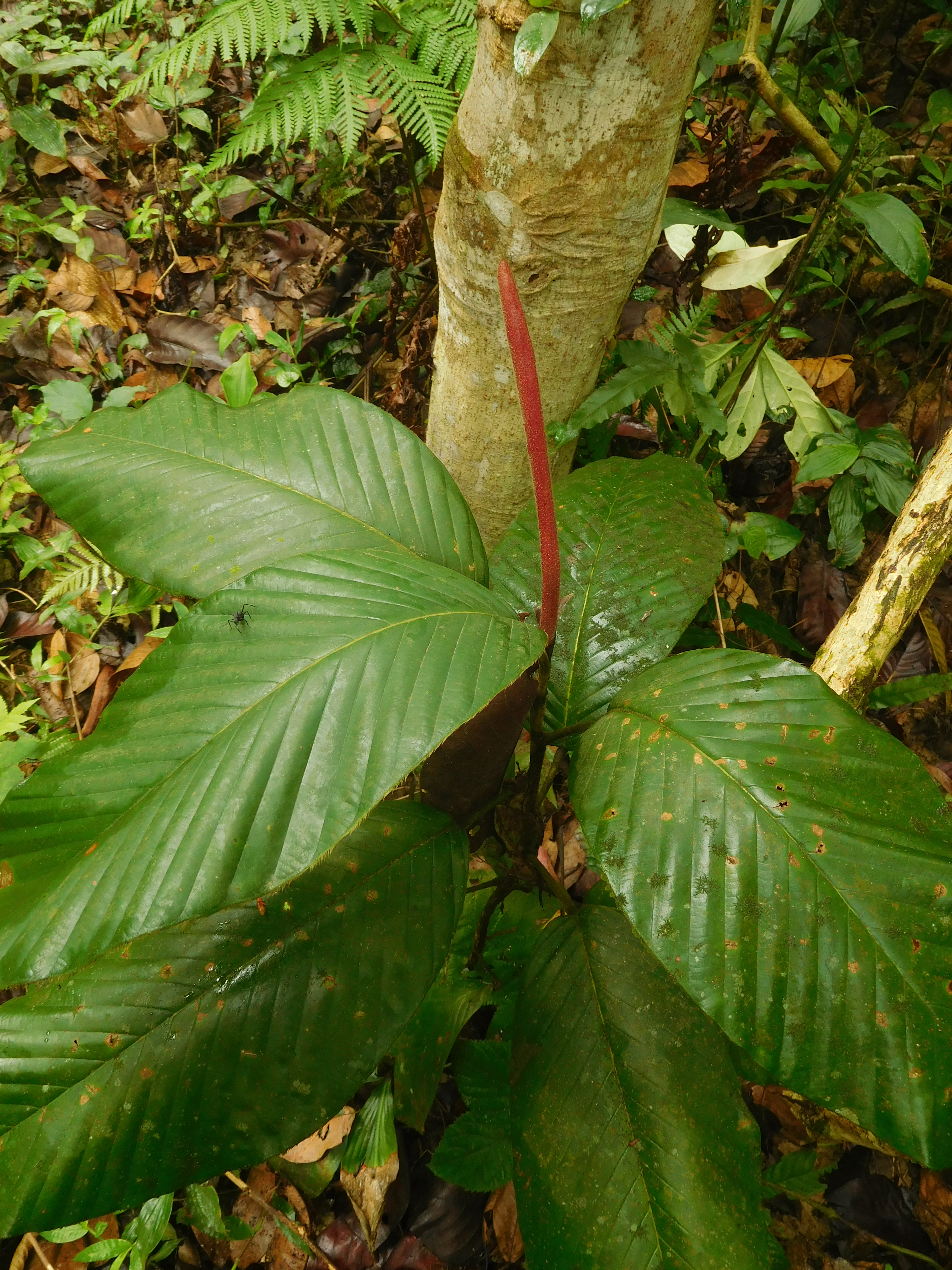 The photograph of Hollong tree sapling was taken by me at Gibbon Wildlife Sanctuary in the month of April, 2018